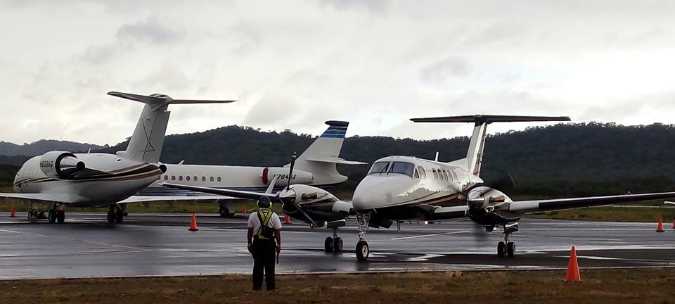 Terminal Aeropuerto Costa Esmeralda.